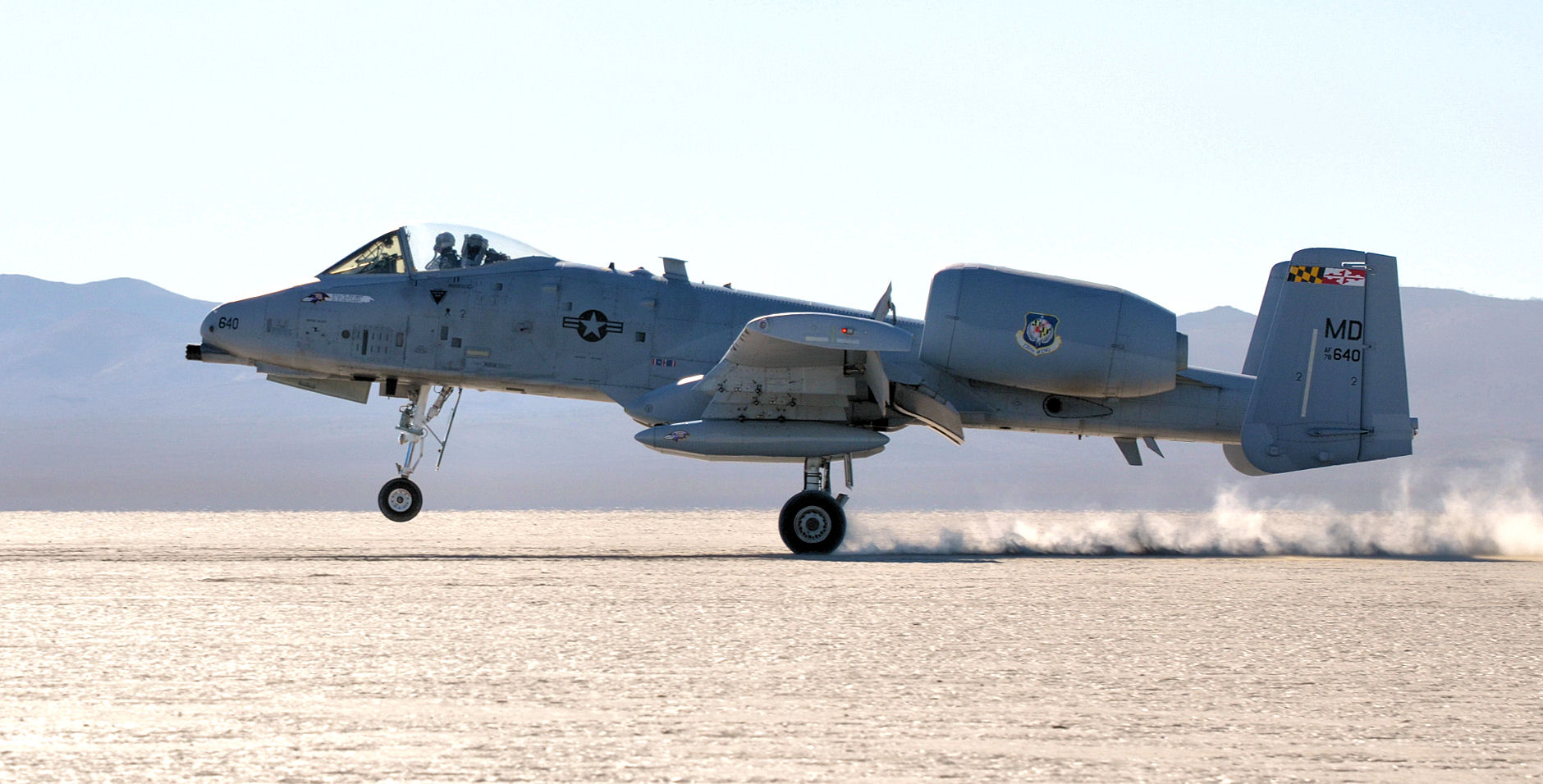 An A-10C assigned to the 104th Fighter Squadron, Maryland Air National Guard, lands at Mud Lake on the Nevada Test and Training Range, November 29, 2011. The pilots landed on an unimproved dirt runway during the day and night as a part of continuing training through the U.S. Air Force Weapons School. (National Guard photo by Staff Sgt. Benjamin Hughes/RELEASED)